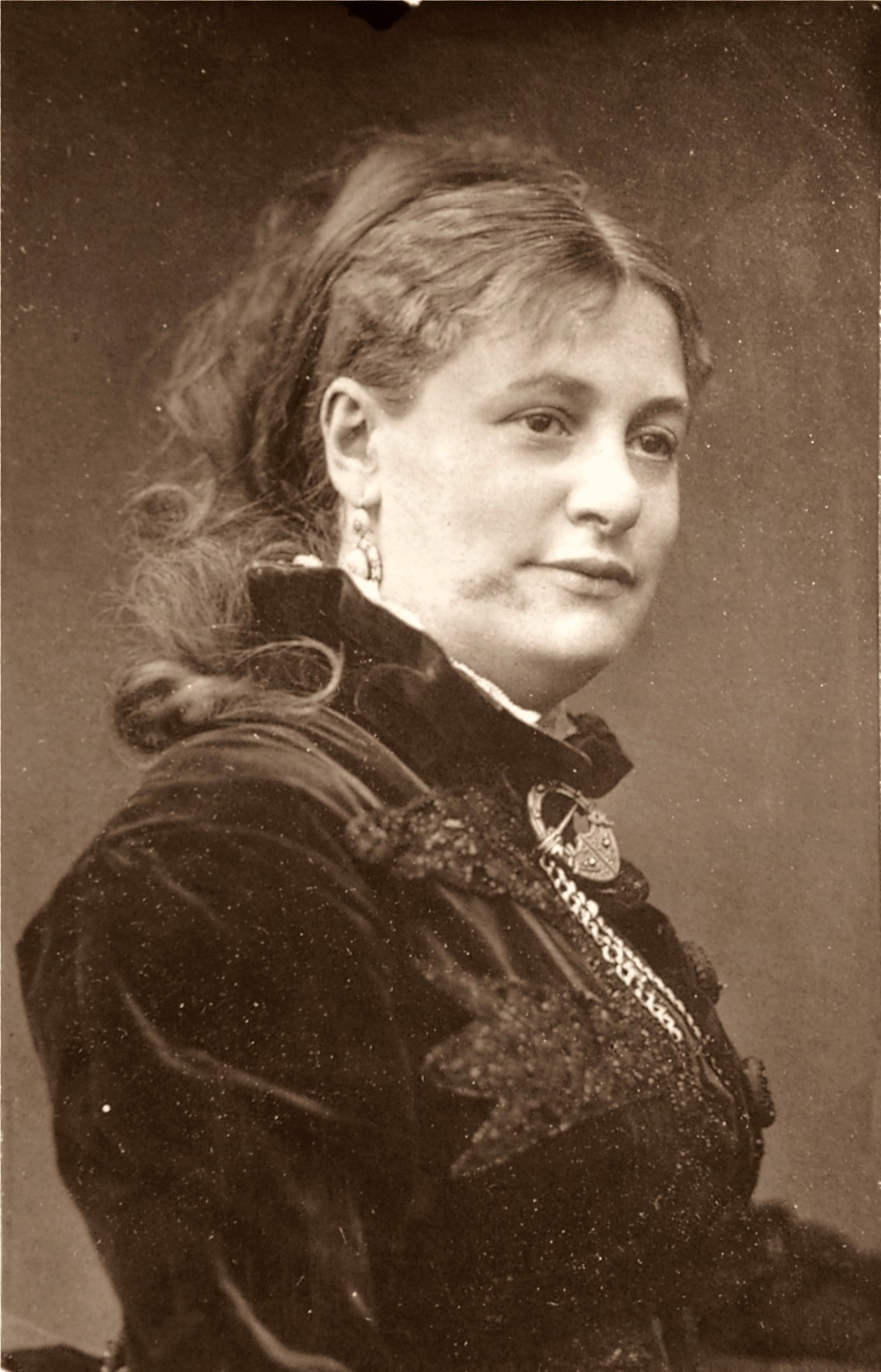 Emily Soldene 1838-1912, English Actress and Theatre-Manager.